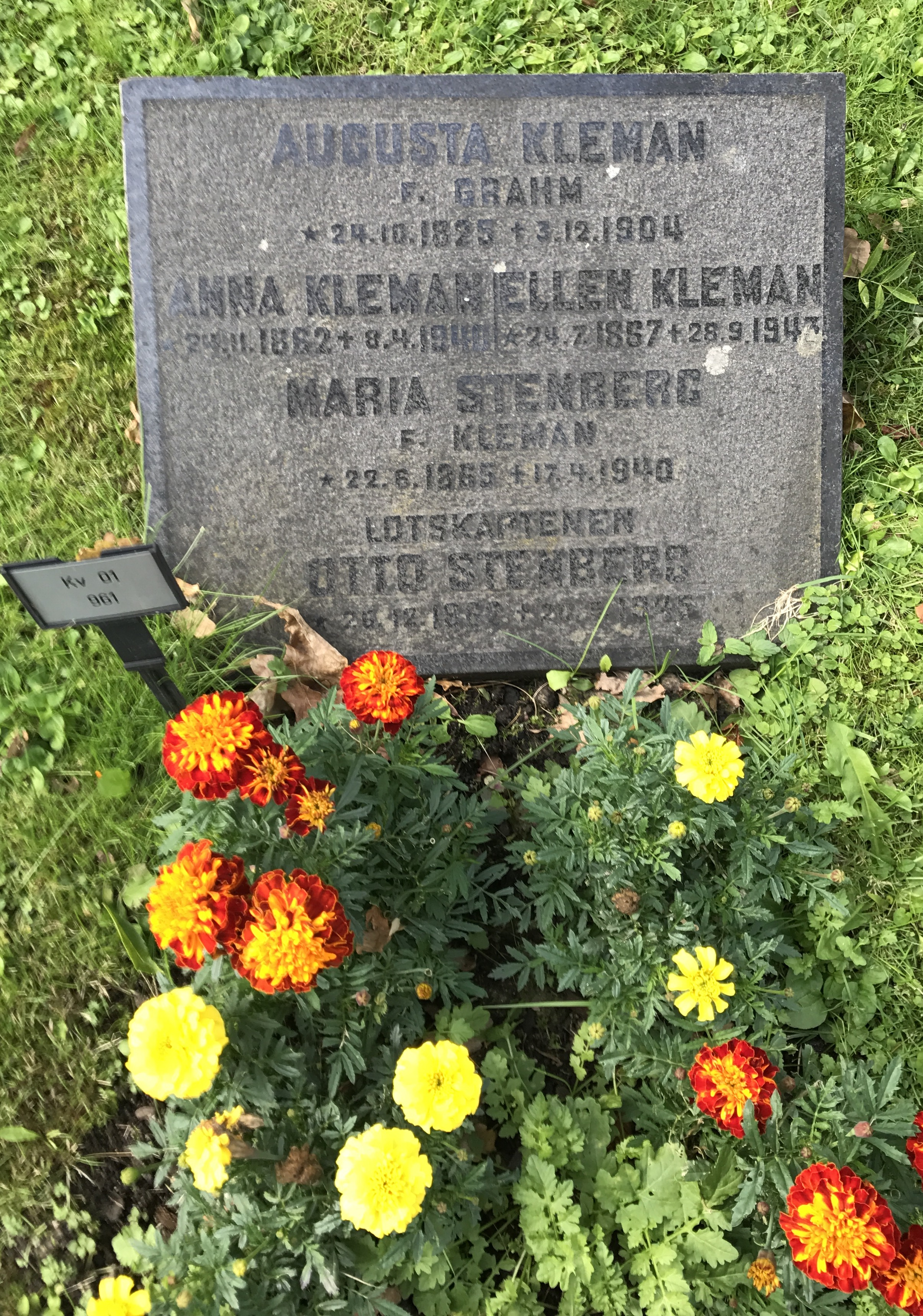 Grave Ellen Emma Augusta Kleman